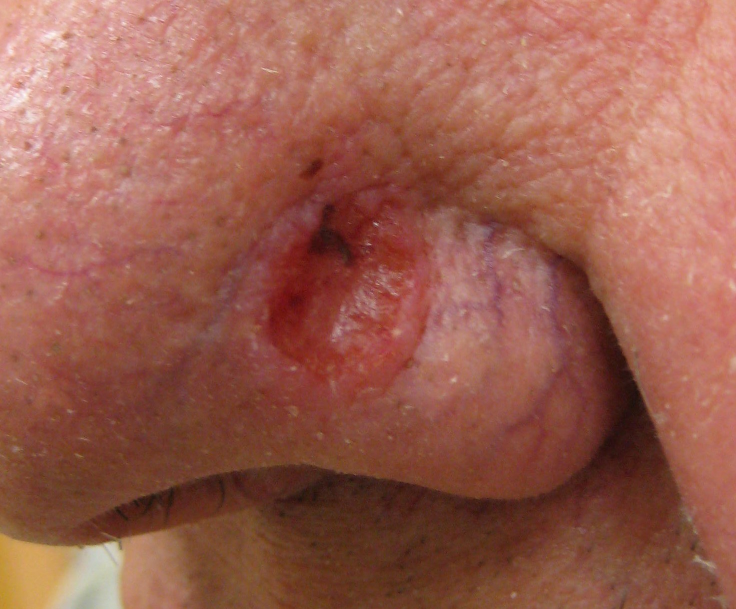 Close up of a basal cell carcinoma